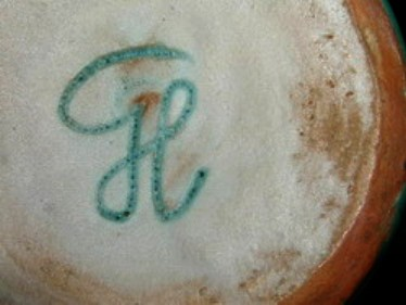 Ceramics mark/sign of Lívia Gorka.